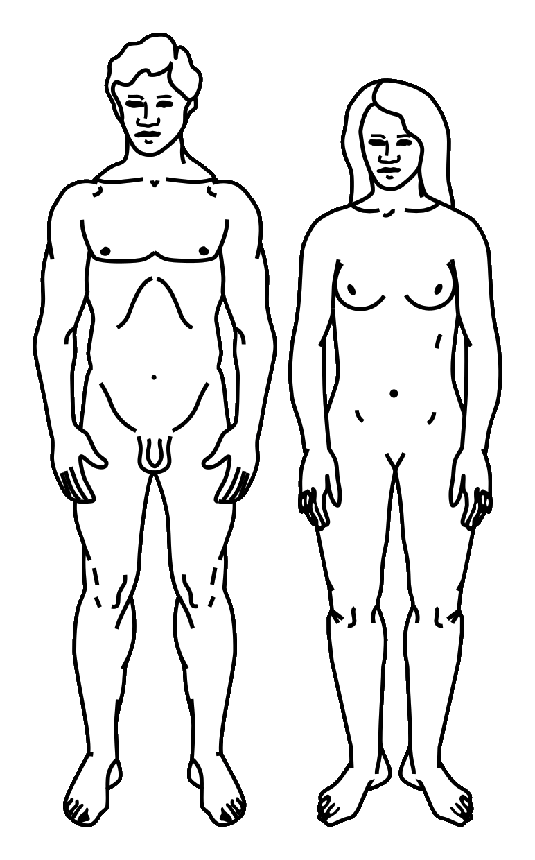 A man and a woman